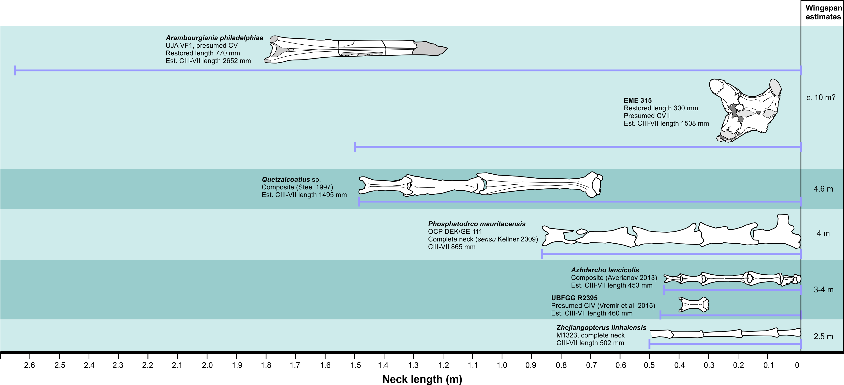 Figure 5: Measured and estimated azhdarchid pterosaur neck lengths against approximate wingspans.